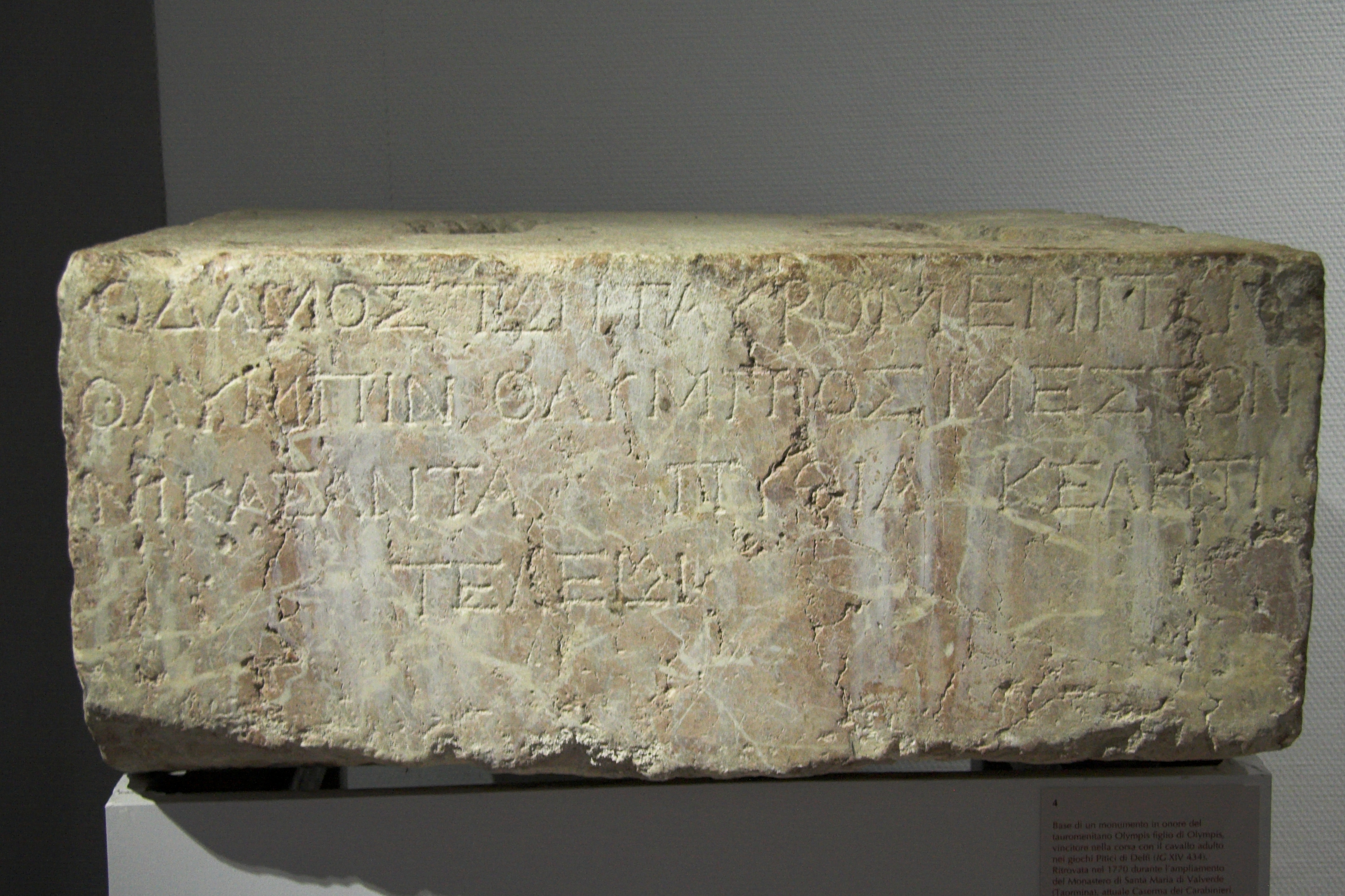 Basis of a monument in honour of Olympis, of Tauromenion, winner in the Pythian Games of Delphoi. Lapidary and epigraphic collection of the Greek Theatre of Taormina. Found in Monastery of Santa Maria di Valverde (Taormina, now Caserma dei Carabinieri). Inscriptionː "The damos (demos) of the Taurmenitai [honours] Olympis son of Olympis MESTON winner with the adult horse in the Pythian games."